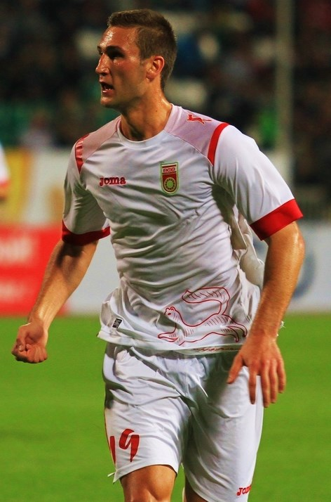 Ivan Paurević